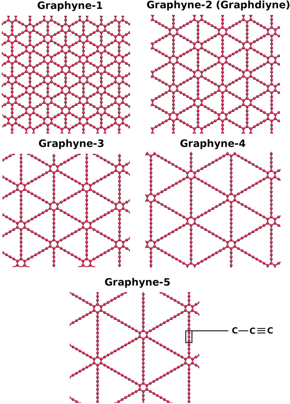 Different types of graphyne sheets. Each graphyne is named with an index “n” which indicates the number of carbon-carbon triple bonds in a link between two adjacent hexagons.